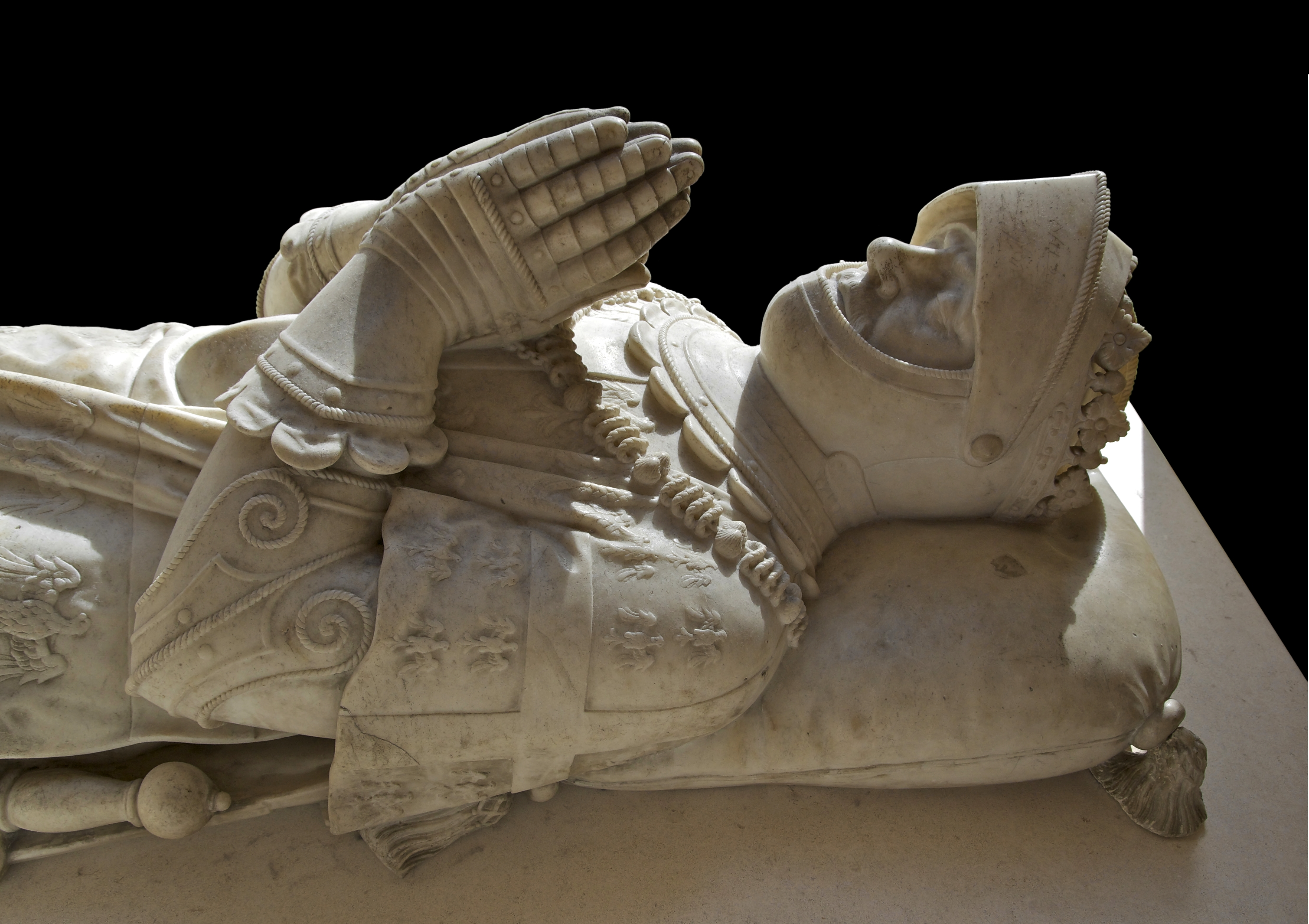 Detail of the recumbent statue over the tomb of Anne de Montmorency (1493-1567)